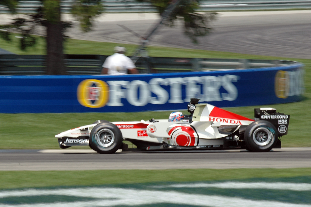 Jenson Button driving for Honda F1 at the 2006 United States Grand Prix.